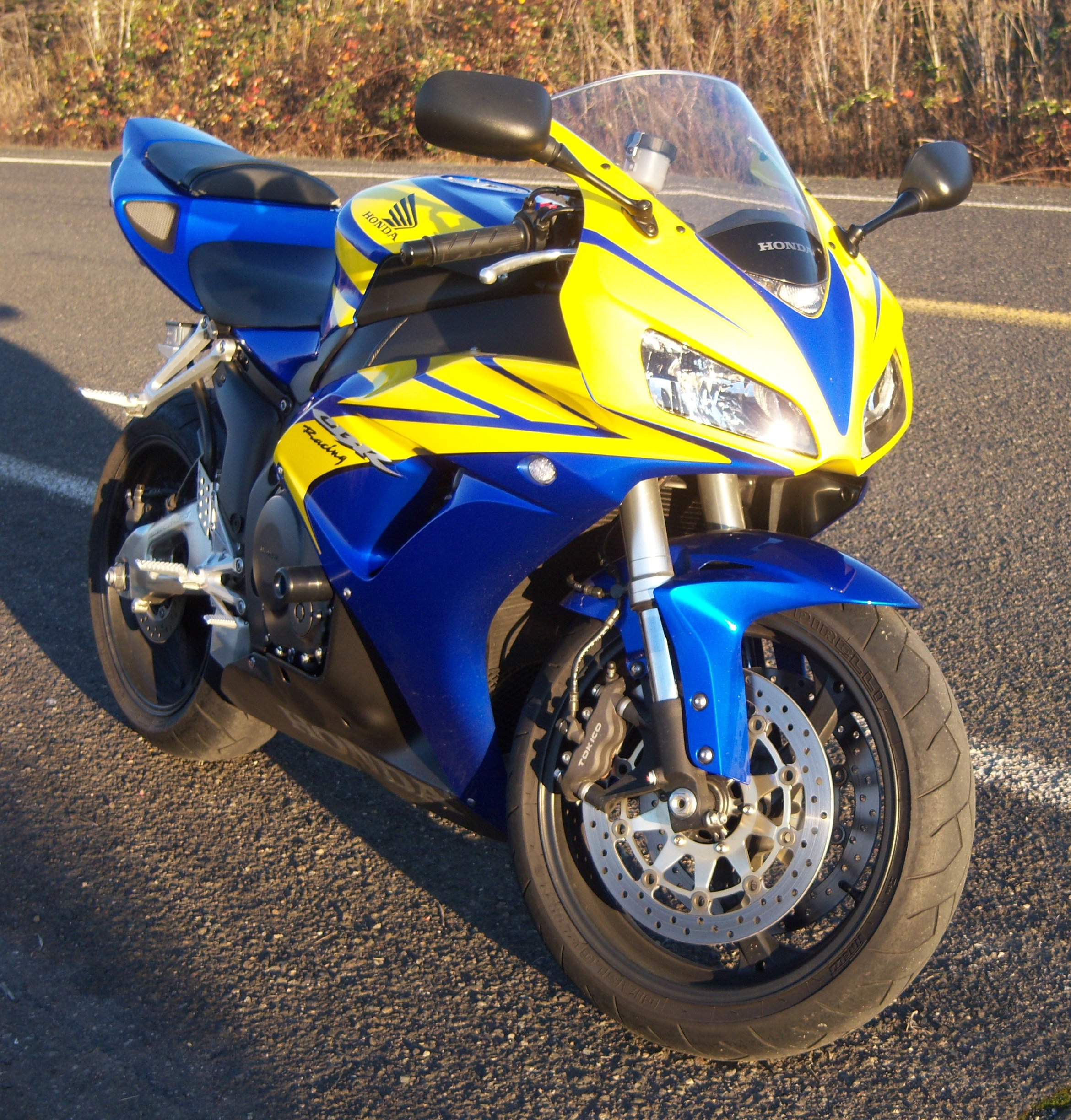 2006 Honda CBR1000RR "Fireblade". Blue and yellow color scheme. This one is very close to stock besides the flush mount side markers and frame sliders. Taken at Vancouver Lake in Vancouver, WA (informally called Lower River Road).